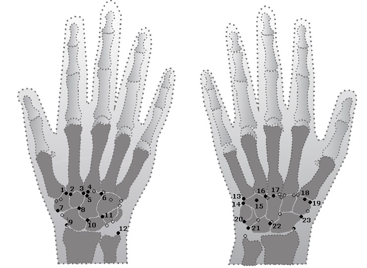 Location of the accessory ossicles of the carpals. On the left, the dorsal aspect of the right hand, on the right the palmar aspect of the right hand. The more dorsally situated ossicles are shown in closed circles on the left and open circles on the right. 1=Os trapezium secundarium; 2=Os trapezoideum secundarium; 3=Os parastyloideum; 4=Os styloideum; 5=Os metastyloideum; 6=Os capitatum secundarium; 7=Os epitrapezium; 8=Os carpi centrale; 9=Os paranaviculare (intercalary bone between scaphoid and radius); 10=Os epilunatum; 11=Os epitriquetrum; 12=Os ulnostyloideum; 13=Os vesalanium manus; 14=Os ulnare externum; 15=Os hamulare basale & Os hamuli proprium; 16=Os gruberi; 17=Os subcapitatum; 18=Os praetrapezium; 19=Os paratrapezium; 20=Os pisiforme secundarium (os ulnare antebrachii); 21=Os triquetrum secundarium (os intermedium antebrachii, os triangulare); 22=Os hypolunatum; 23=Os radiale externum